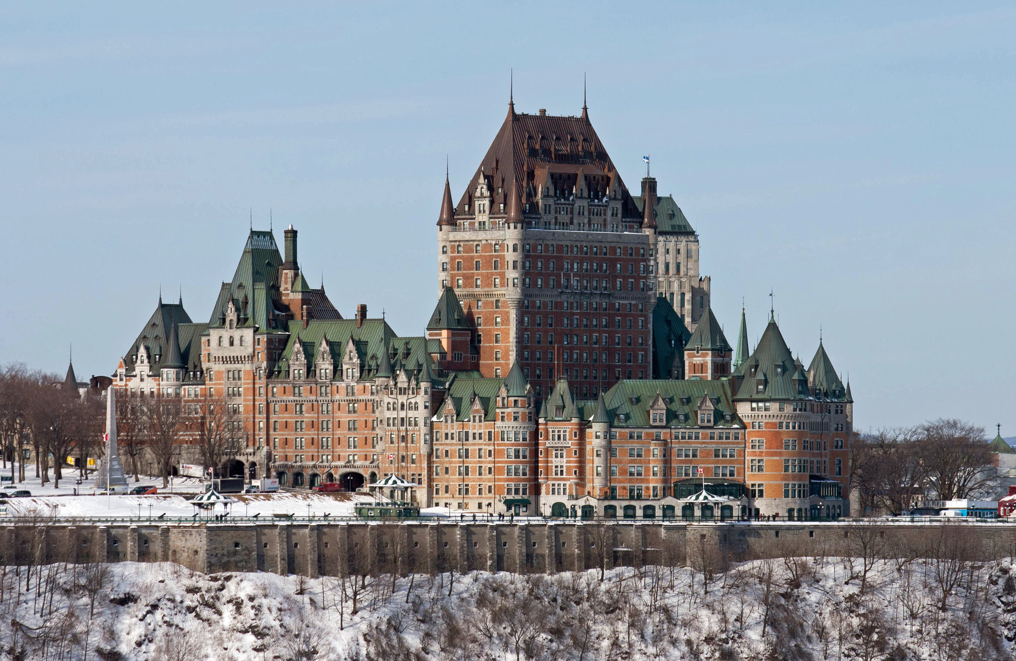 The Château Frontenac seen from the Terrasse of Lévis, Canada